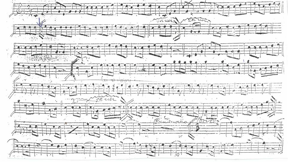 D. Jesús Merlo, primer director de la Banda de Música Municipalcompuso una serie de piezas desde el año 1.886, entre ellas el pasacalles “Molinicos”, que siempre será recordado como la “Diana”, un pasacalles se ha convertido en el auténtico himno del municipio de Molinicos. No hay celebración o fiestas que se precie en las que la gente no se emocione al oír sus compases. Más que una canción, es un elemento de unión y fiesta. Se trata de una melodía cargada de emociones, sentimientos y orgullo.